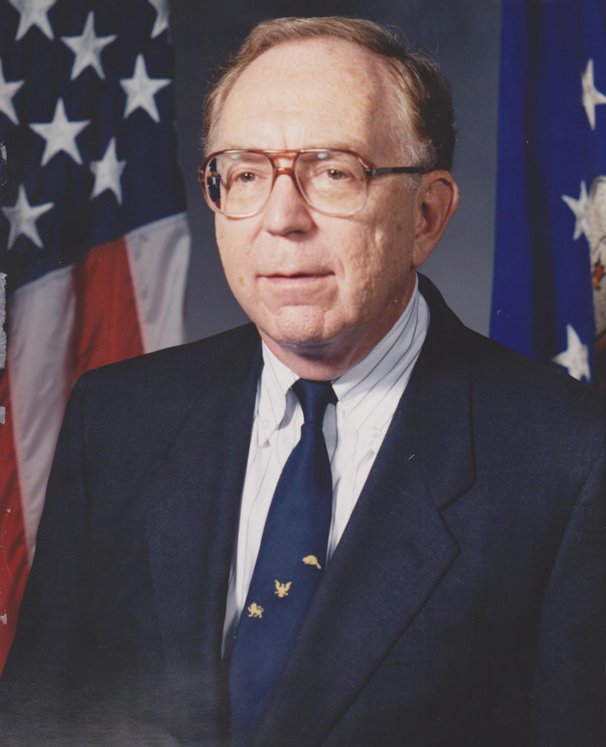 Dr. Edward A. Feigenbaum, 27th Chief Scientist of the USAF, 1994-1997